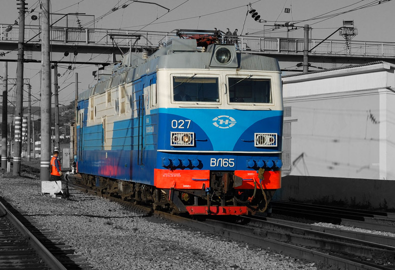 Electric locomotive VL65 #027, Krasnoyarsk, Russia